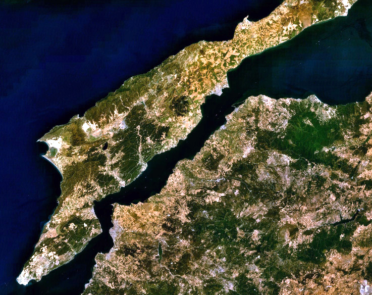 Landsat 7 image of the Dardanelles and Gallipoli Peninsula, Turkey.